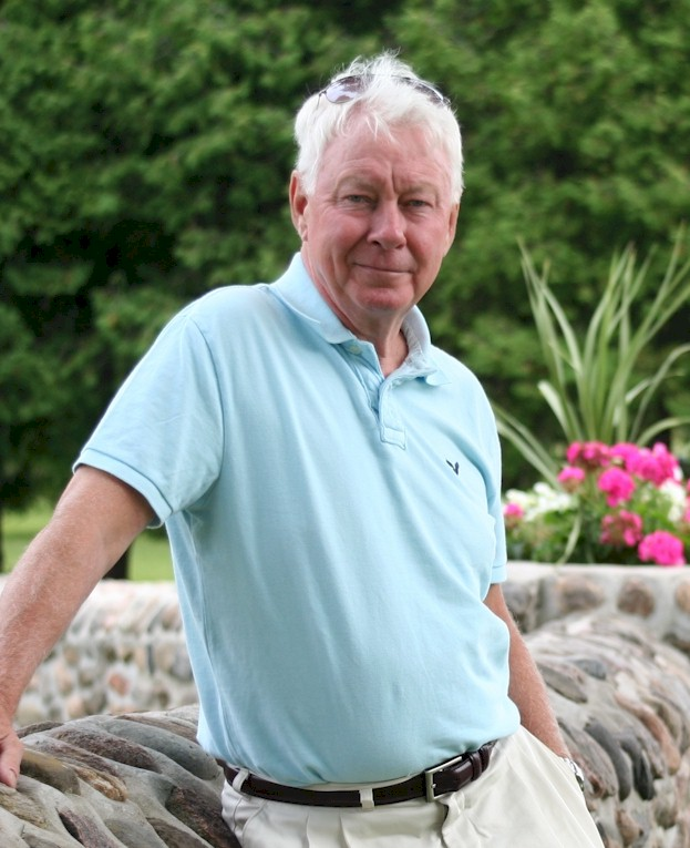 Phil Craig, on the shores of Lake Simcoe in July 2010.